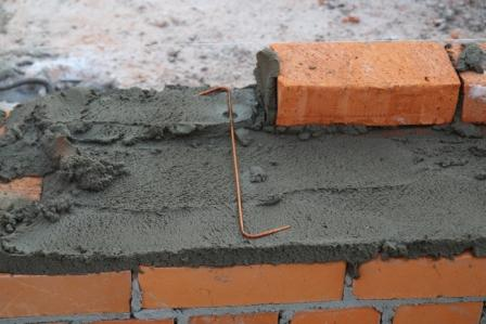 Использование S-образной связи в обычной кладке